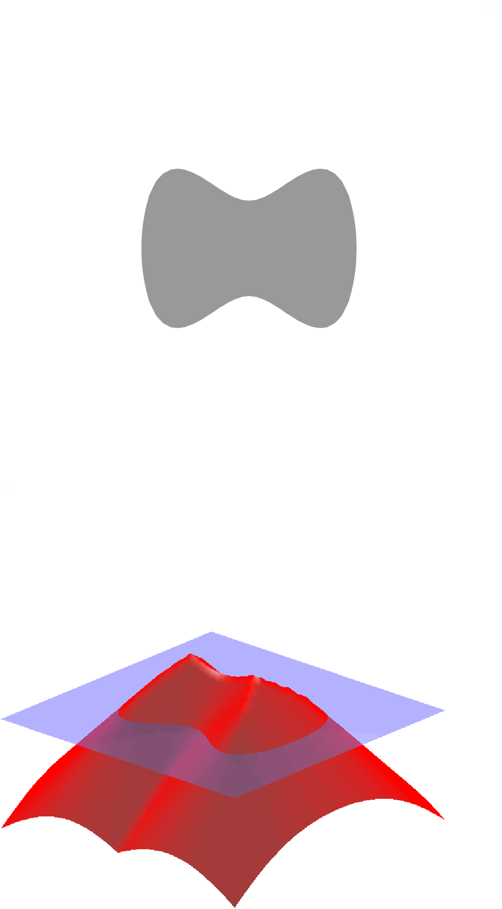 Made by myself with Matlab.